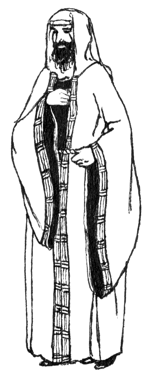 Line art drawing of a gabardine